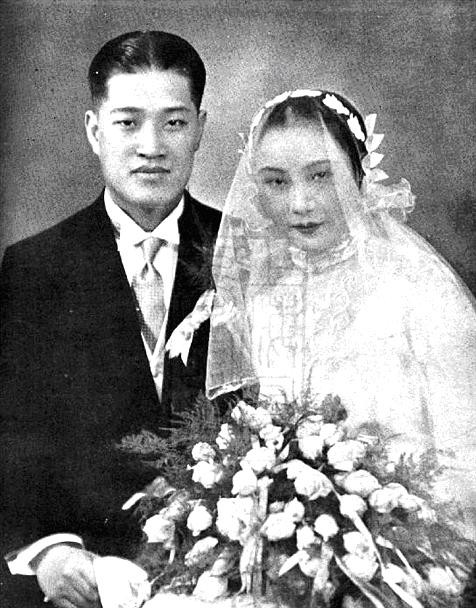 Wedding photo of Hu Die (Butterfly Wu) and Pan Yousheng